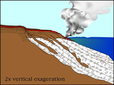 Cartoon cross-section showing the development of a lava delta